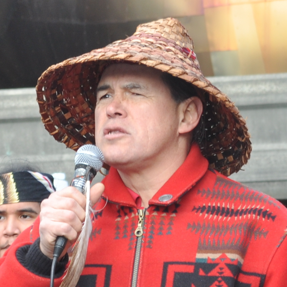 At the raising of the John T. Williams Memorial Totem Pole, Seattle Center, February 26, 2012. Chairman Brian Cladoosby, Swinomish Indian Tribal Community addressing the assembled crowd. Experience Music Project and monorail track in background.